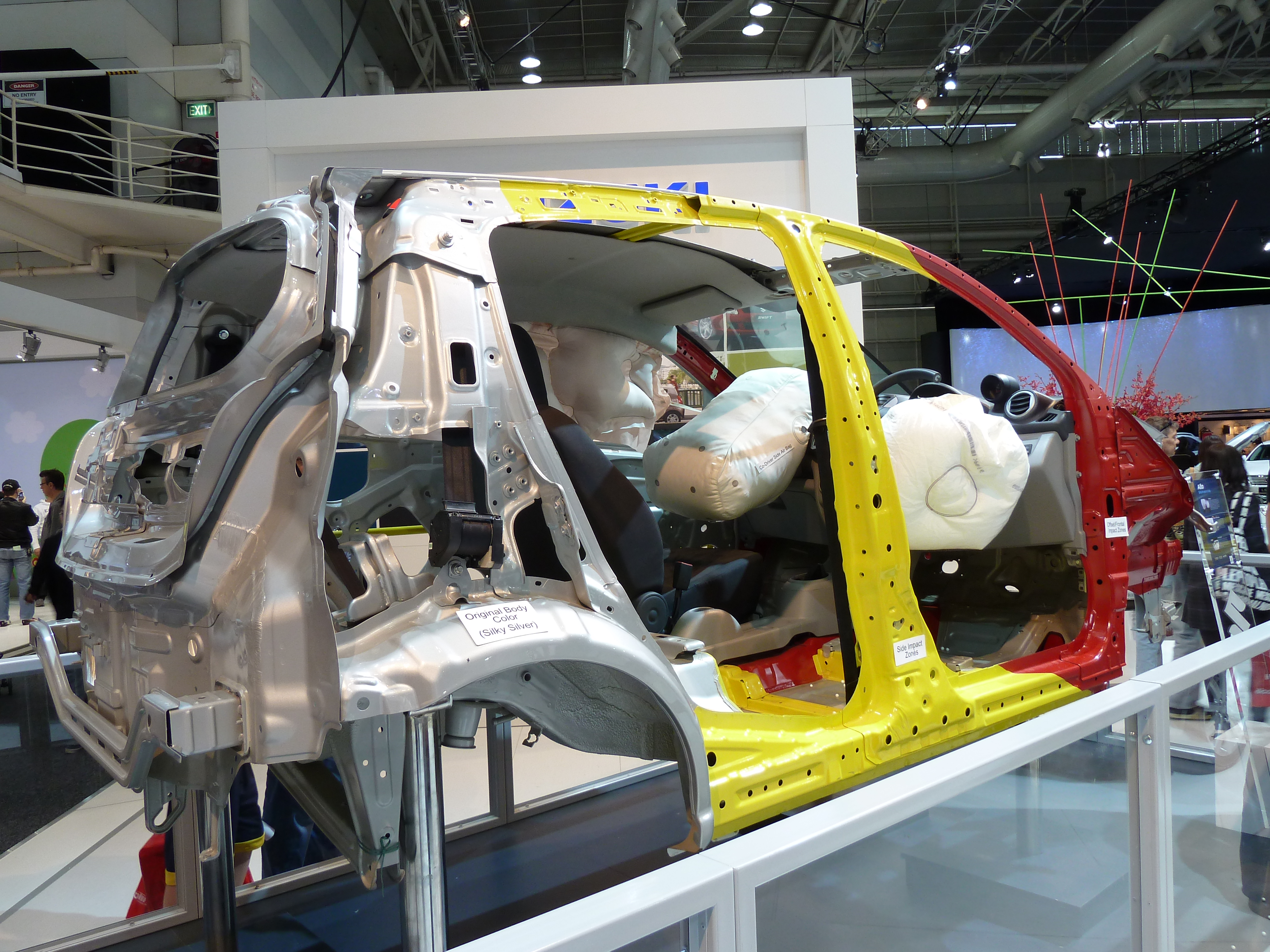 Suzuki Alto (GF) hatchback body in white. Photographed at the 2010 Australian International Motor Show, Sydney, New South Wales, Australia.